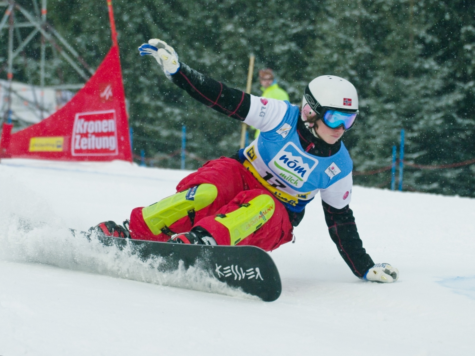 Norwegian snowboarder Hilde Katrine Engeli in the qualification round of the World Cup Parallel Slalom at the Jauerling in Austria on 13 January 2012.